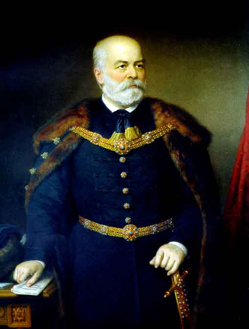 Portrait of Emonoil Gojdu